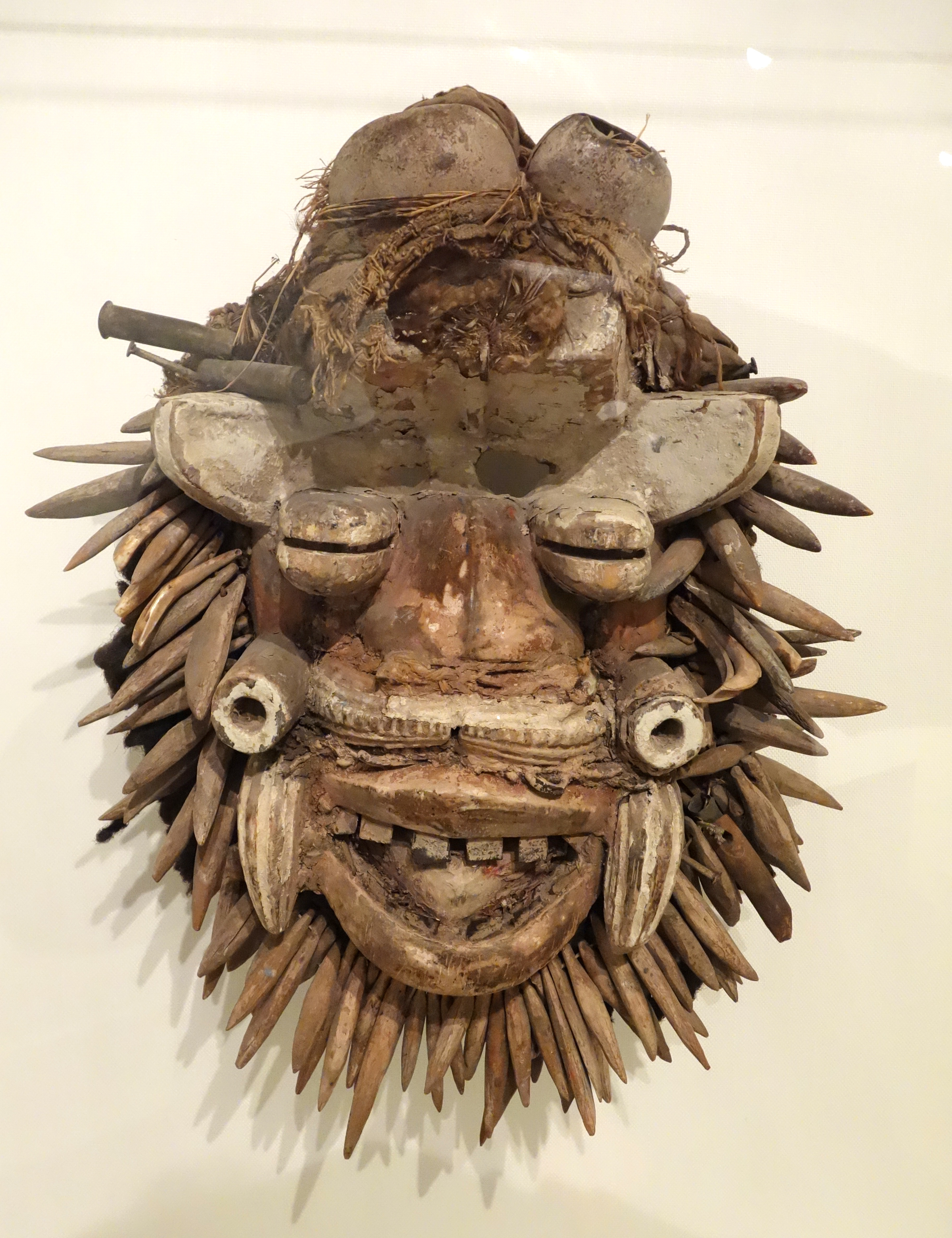 Exhibit in the Brooklyn Museum - Brooklyn, New York, USA. This artwork is in the public domain because the artist died more than 70 years ago.